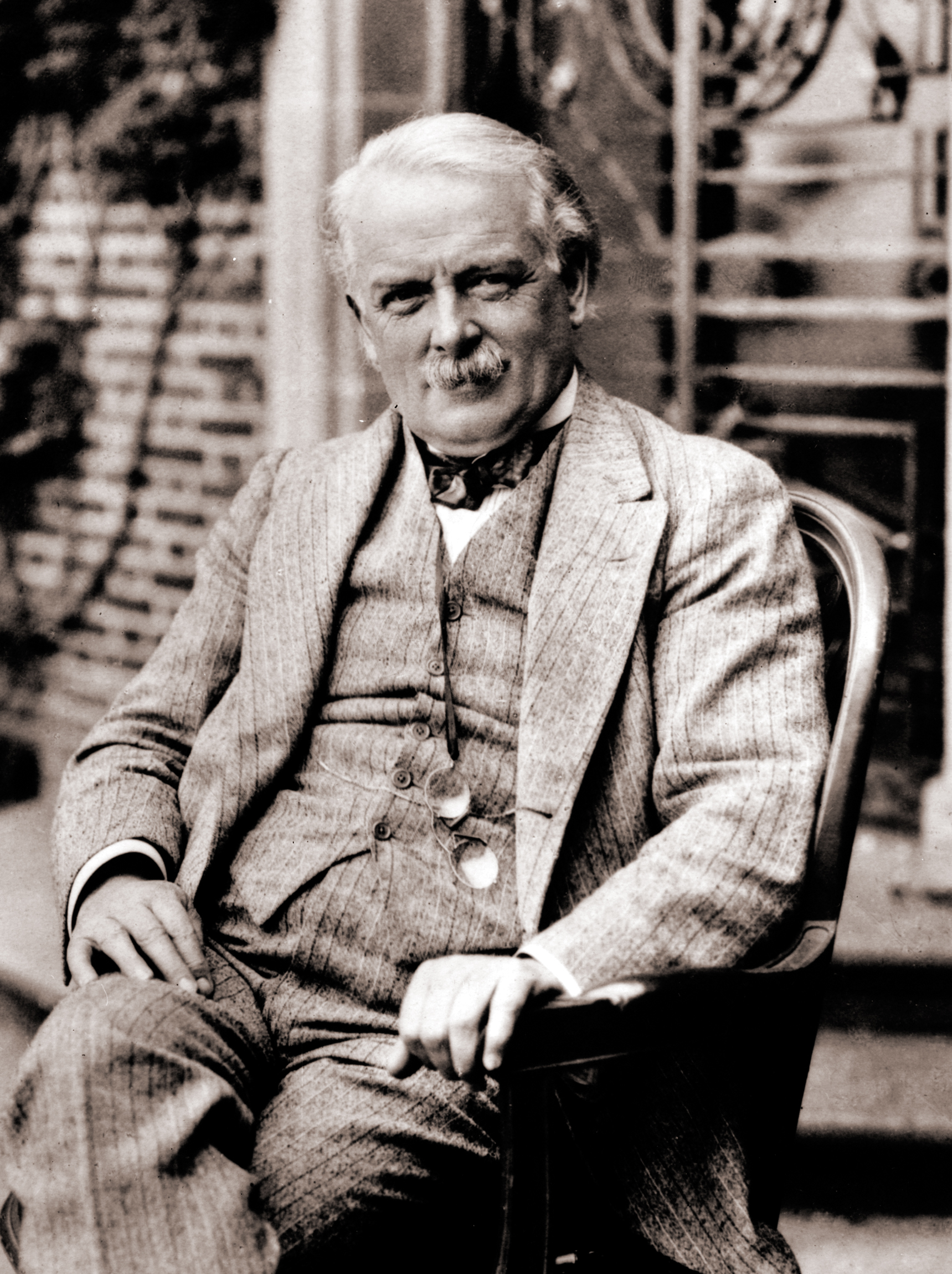 David Lloyd George, Prime Minister of the United Kingdom